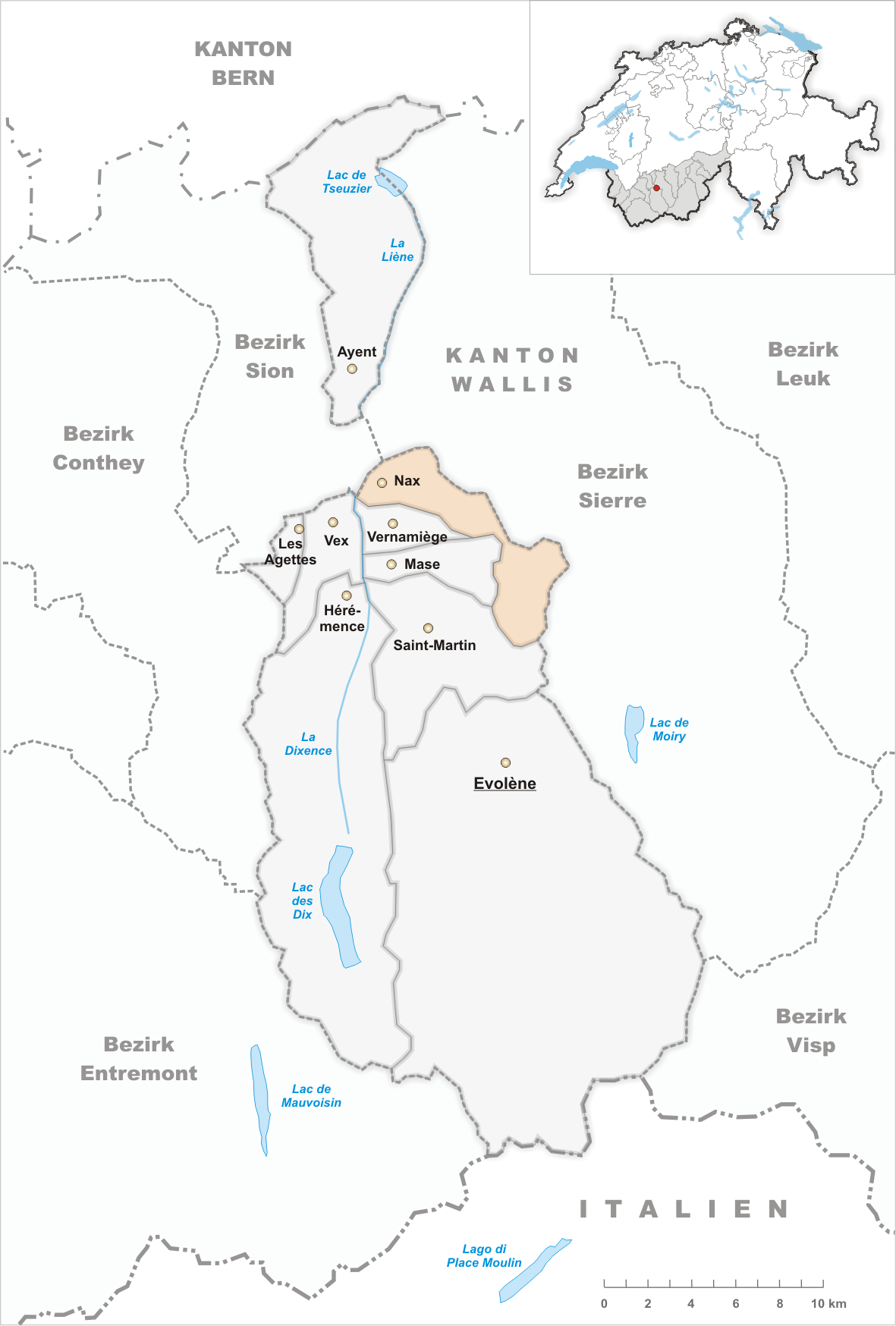 Municipality Nax